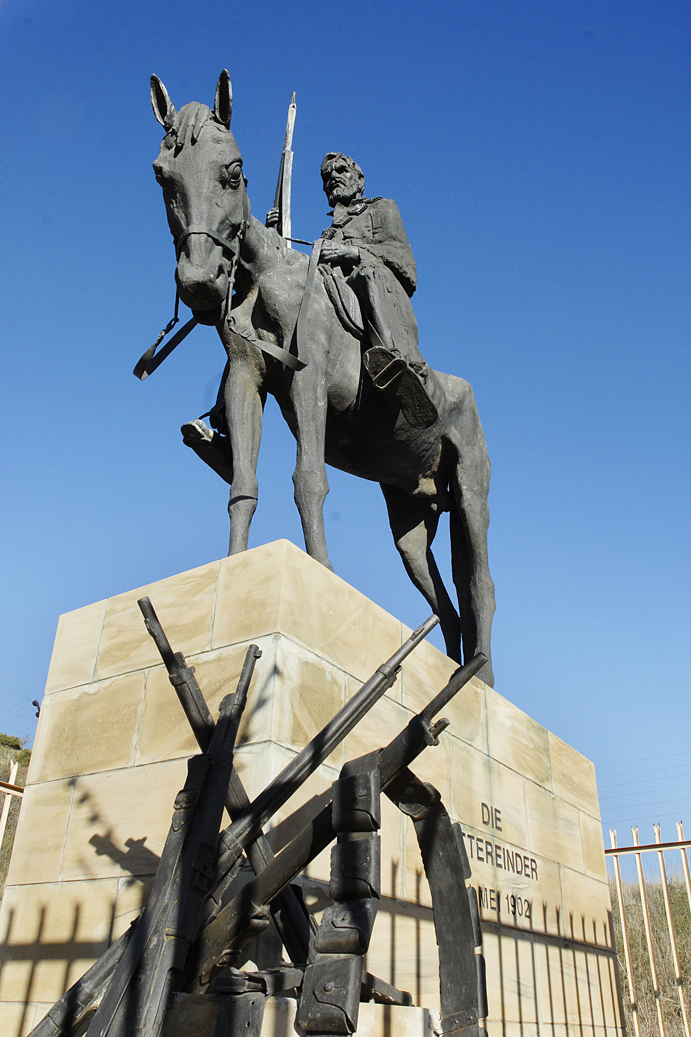 One of the many statues at the Bloemfontein Women's Memorial